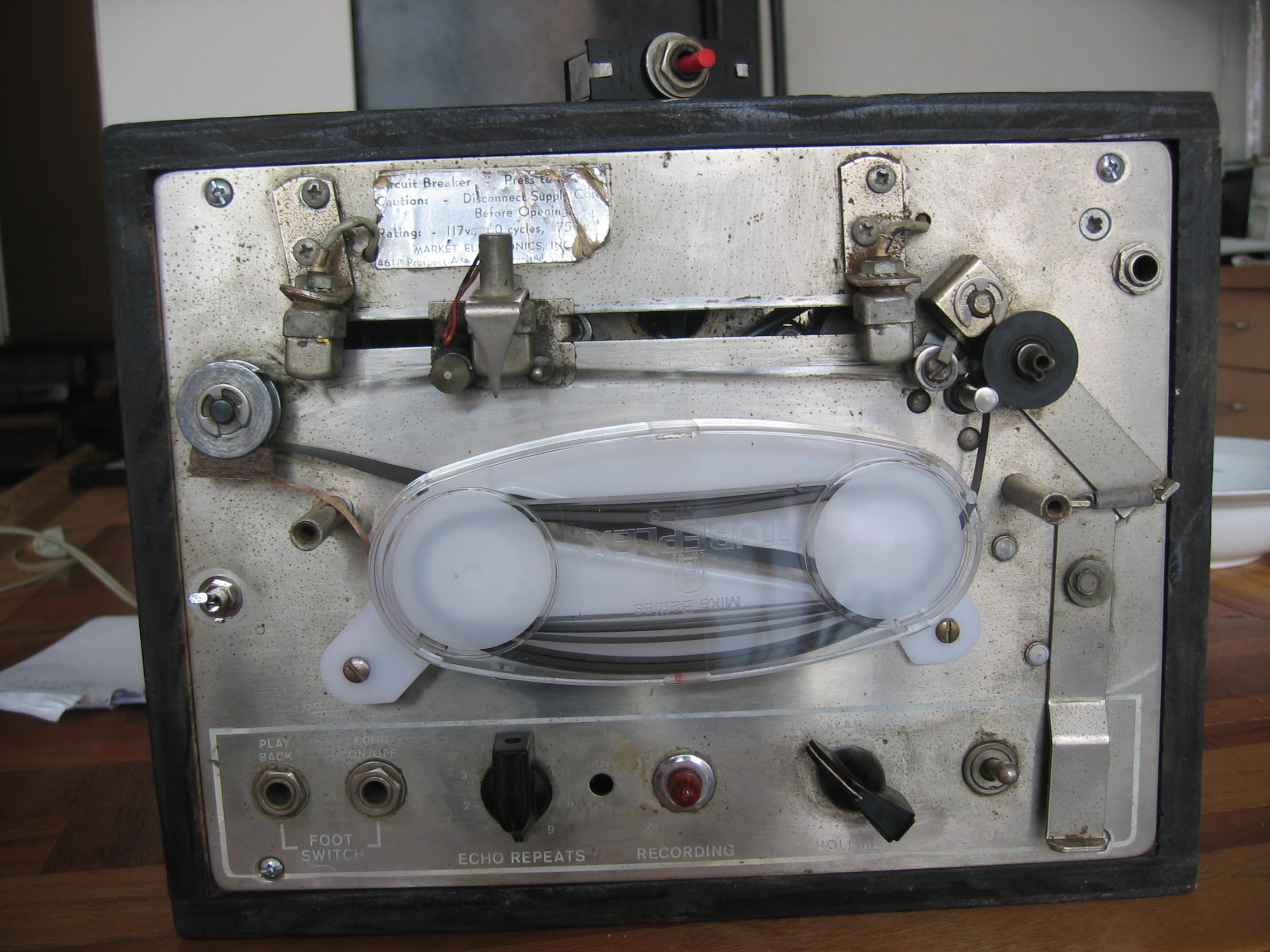 Maestro Echoplex EP-2 Tube Tape Echo My late model EP-2, with Sound-On-Sound. story @ Flickr Tags: echoplex tape echo tape echo delay tubes tube ep-2 mike battle effects gear sound on sound RECORD PLAYBACK ERASE chickenheads. from Flickr album "ordering moo cards" by evan p. cordes